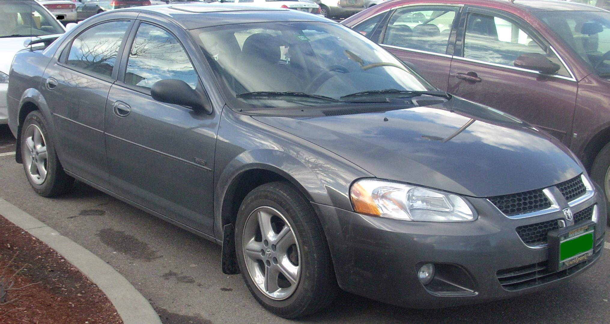 2004-2006 Dodge Stratus photographed in Williston, VT, USA.